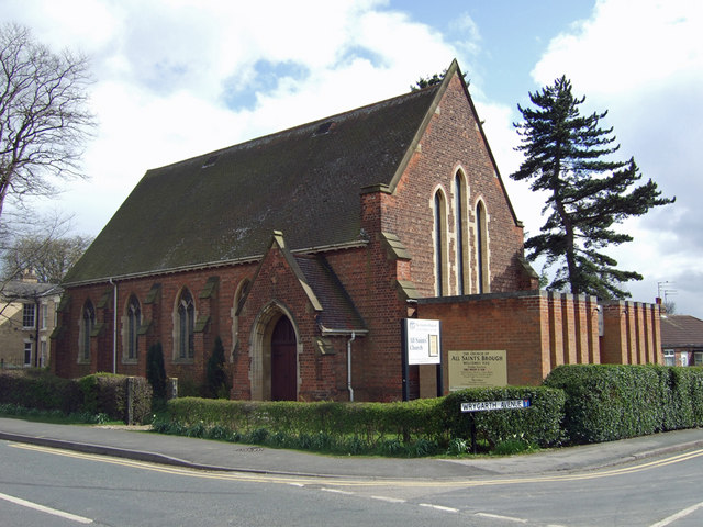 All Saints Church, Brough, East Riding of Yorkshire, England.Pevsner says "ALL SAINTS, Welton Road. 1913 by W.S.Walker & Sons. Red brick and tile, Dec, with polygonal apse. Interior rearranged and porch and vestries added to the w end c.1965.."